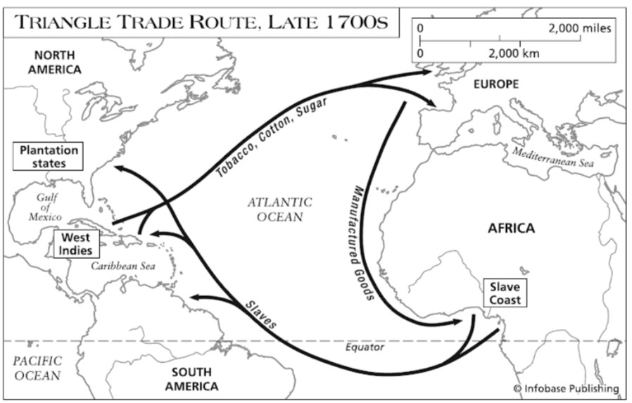 Taken from the book by Schneider and Schneider 2014, this picture portrays the slave trade-route.